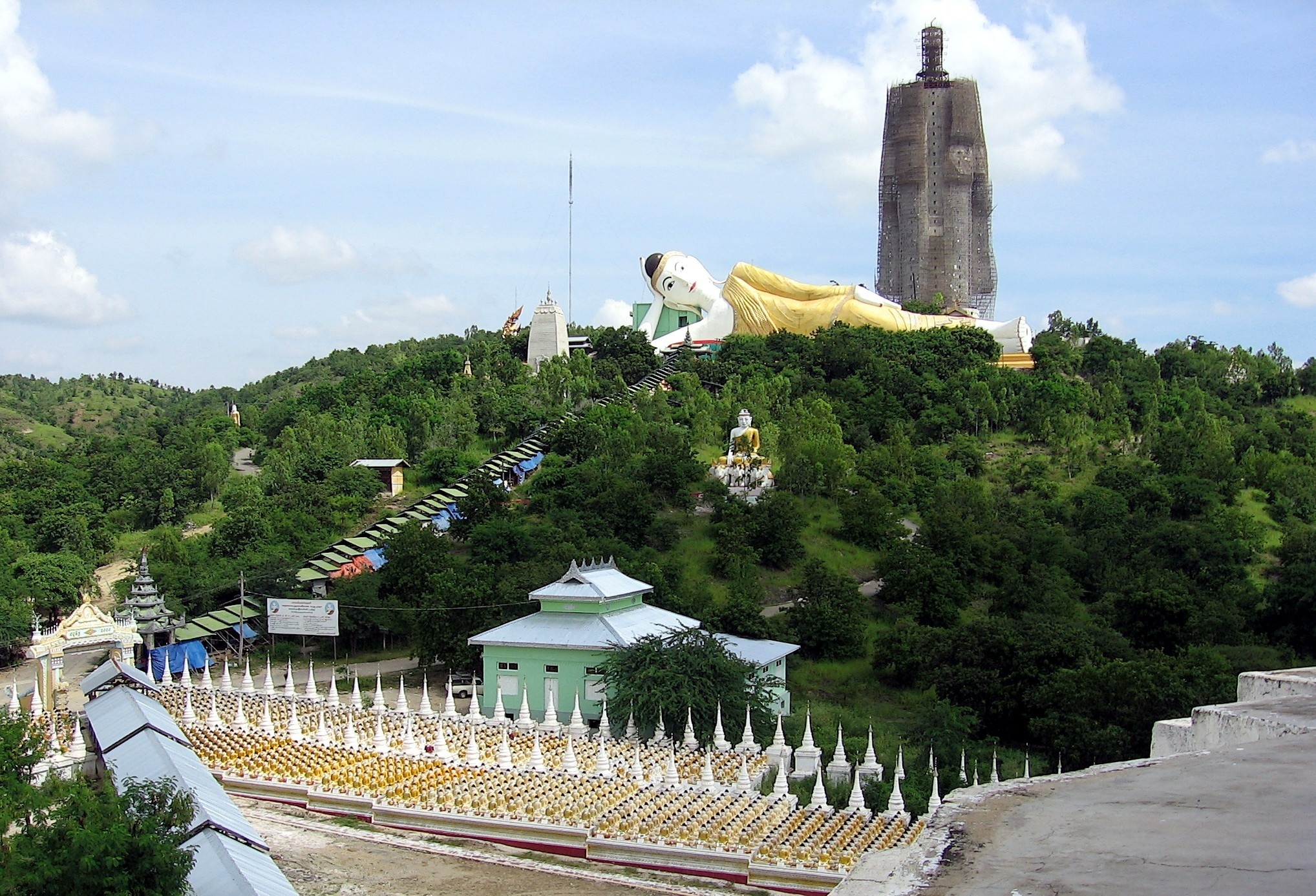 90 m. long reclining buddha, near Monywa, Myanmar.